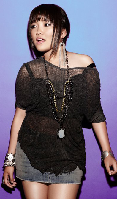 Singer/Actress Charice Pempengco